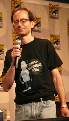 David X. Cohen at Comic Con 2007.